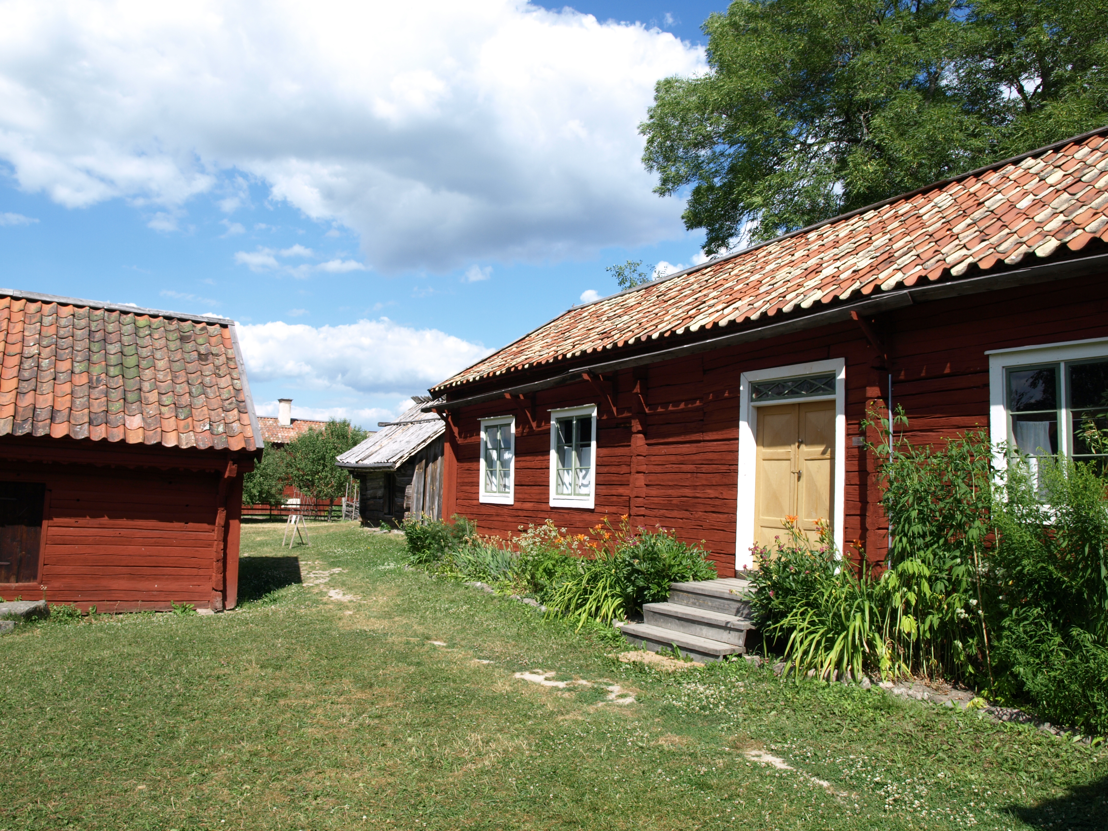 Disagården, close to Gamla Uppsala, Sweden